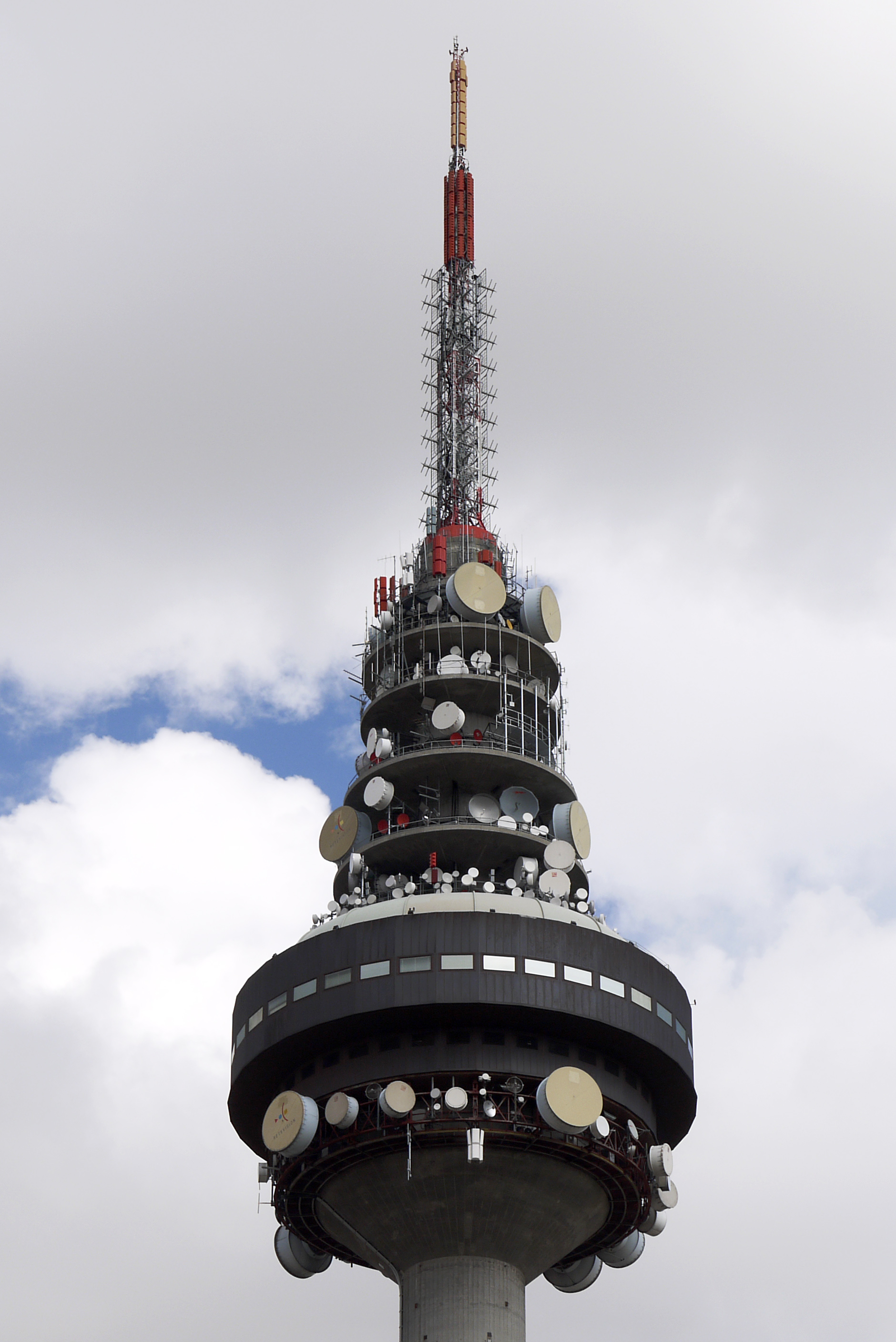 Torrespaña is a TV and radio tower in Madrid (Spain). It was projected in 1980 by architect Emilio Fernández Martínez de Velasco and engineer José Horta Casero, and built from 1981 to 1982.